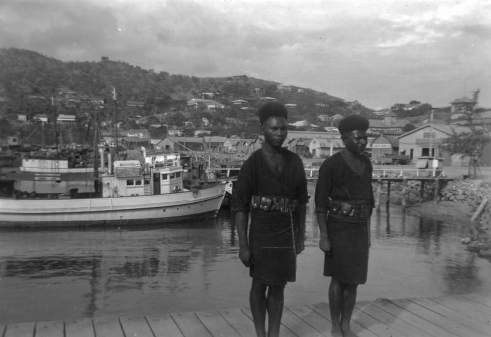 Papuans at the harbourside in Port Moresby, Territory of Papua, 1946. Military police?